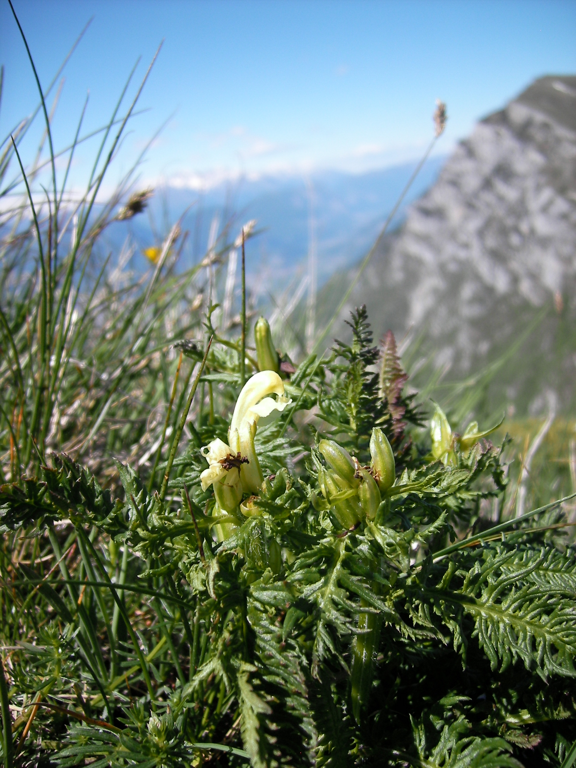 Pedicularis comosa at Monte Baldo